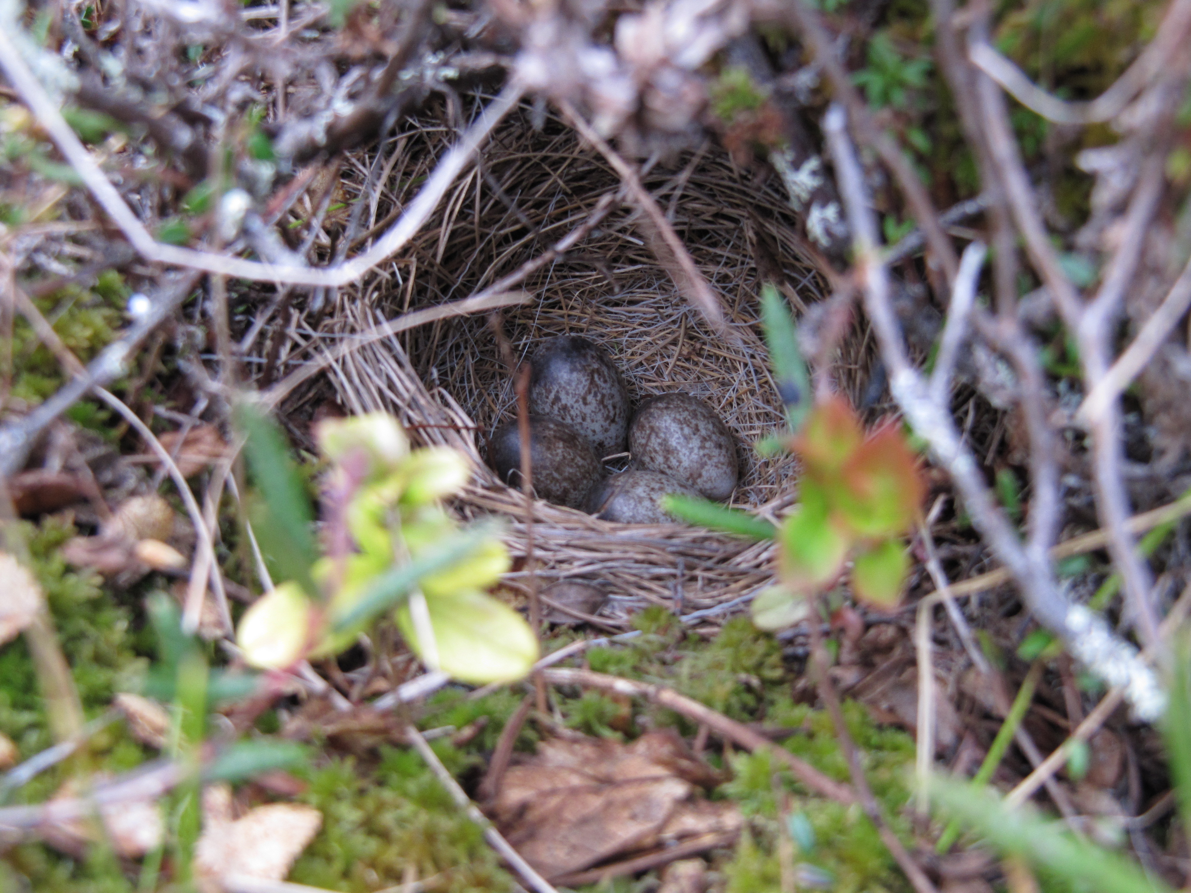 Photo of Anthus pratensis nest in Salla, Finland